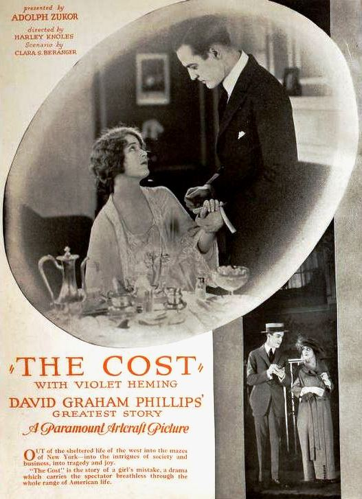 Ad for the American film The Cost (1920) with Violet Heming and Edwin Mordant, page 3004 of the April 3, 1920 Motion Picture News.